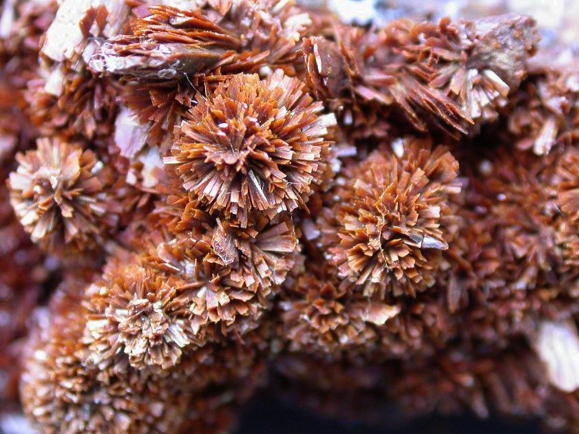 Santabarbaraite Locality: Kerchenskoe deposit, Kerchenskyi (Fe)-ore basin, Kerch peninsula (Kertch peninsula), Crimea peninsula, Crimea Oblast', Ukraine Nice Santabarbaraite xls, pseudomorph after Vivianite. Field of view 3x2 cm. Specimen and photo Leon Hupperichs.